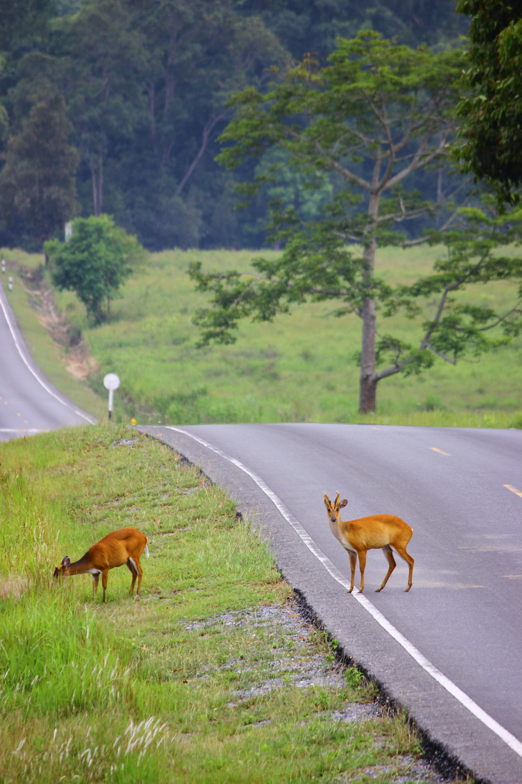 one of my favourite shots at this mountain